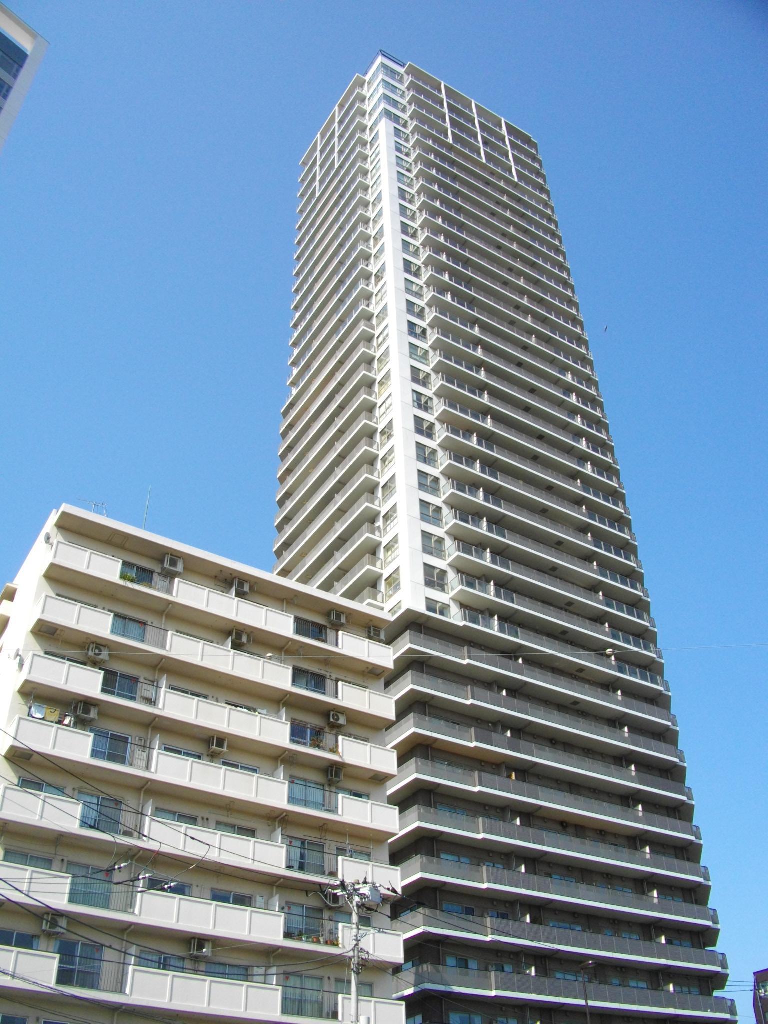 Renaissance Tower Ueno-Ikenohata